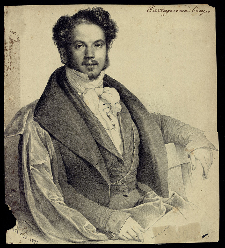 Portrait of Giovanni Orazio Cartagenova, baritone (1800-1841), 1832.